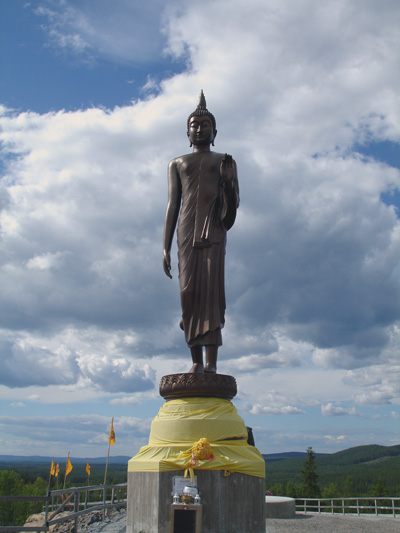 Statue at the buddhist temple construction site in Fredrika, Swedish Lapland.